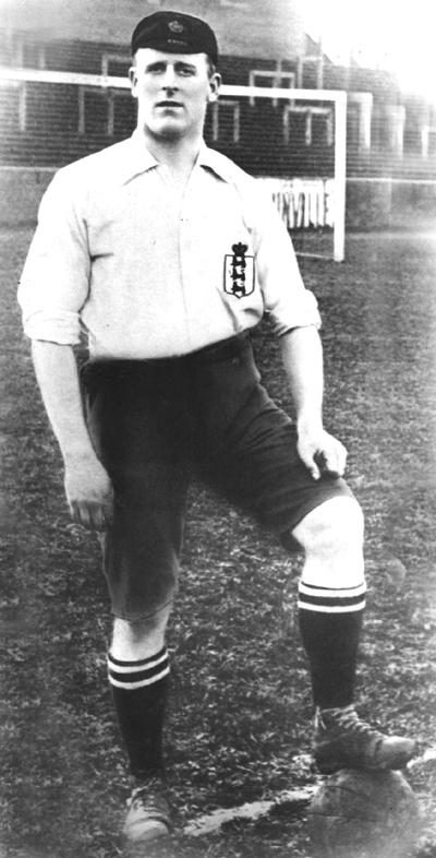 Alf Common (1880-1946), England footballer who played for Sheffield United, Sunderland and Middlesbrough. In 14 February 1905 Midldesbrough paid Sunderland £1000 for Common.